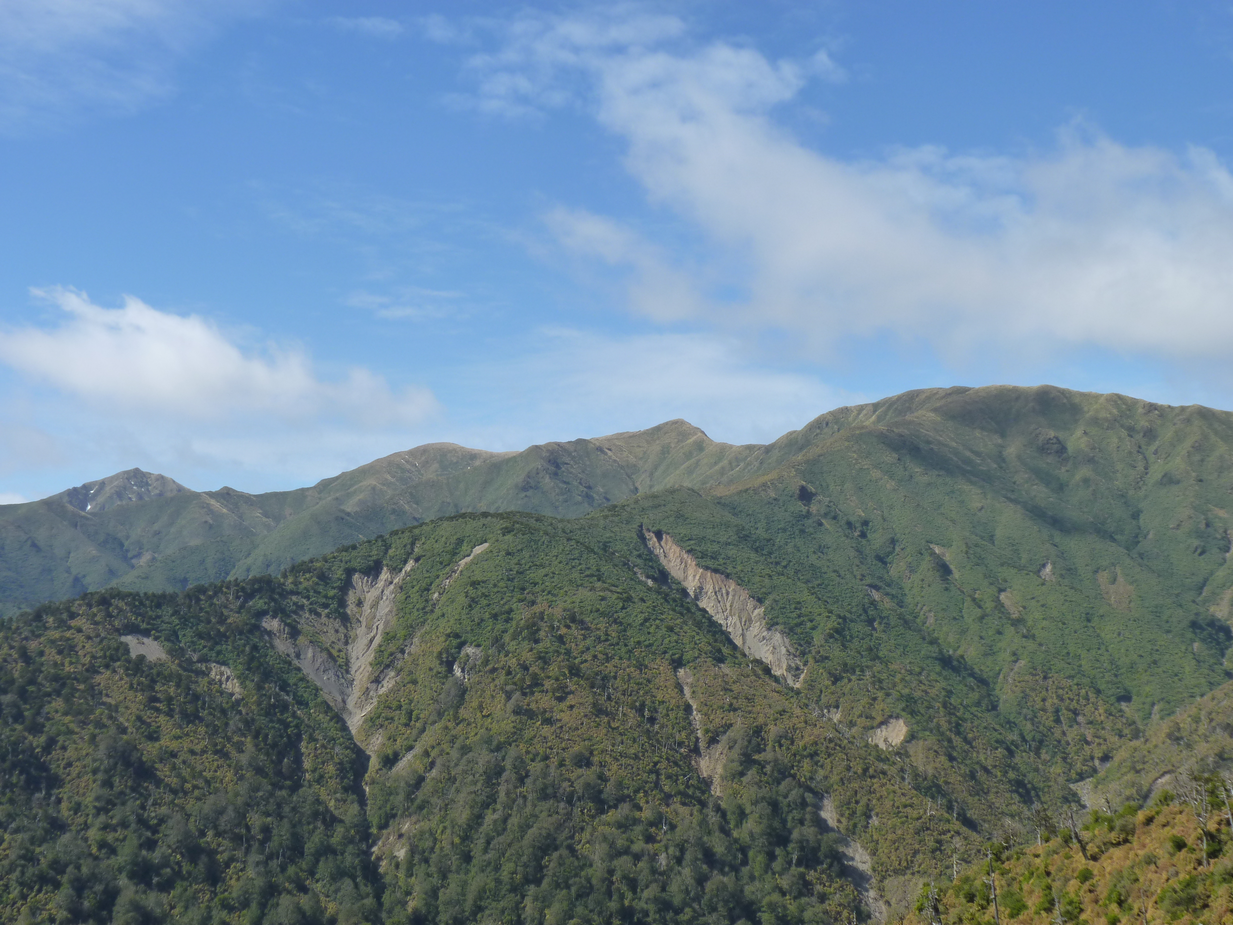 Knights-Shorts Loop Track in Ngamoko Range / Ruahine Range. New Zealand